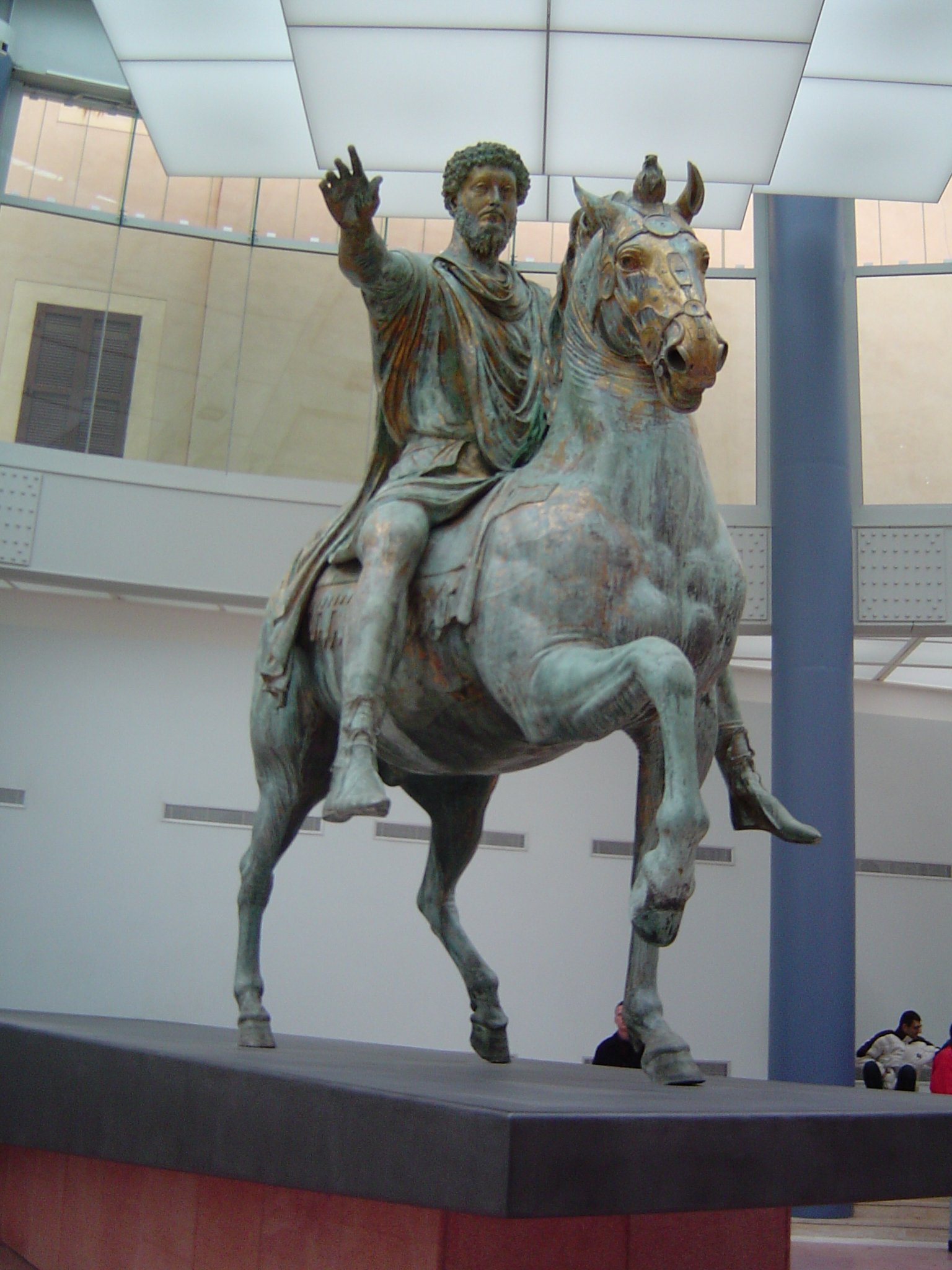 Statue of Marcus Aurelius in the Capitolin Museum, Rome Made by J. van Rooden, The Netherlands on 29-12-2005